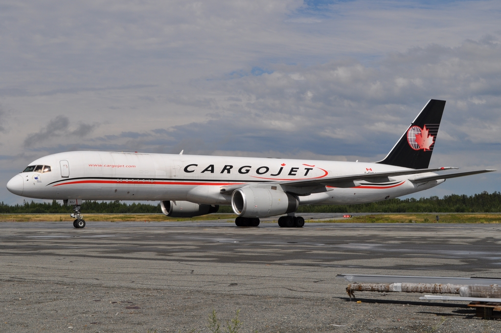 Cargojet 757 is ready to taxi, IFR flight from Val-d'Or to Iqaluit.